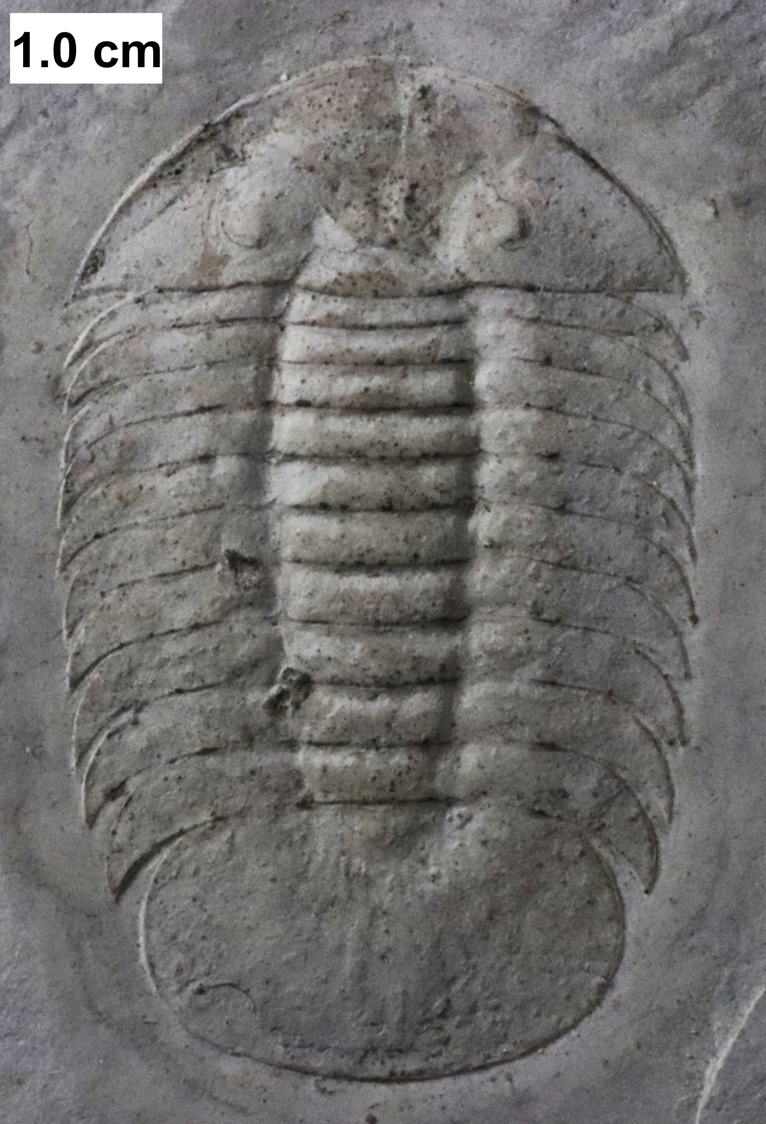 Silurian scutelluid trilobite from the Waukesha Biota; Brandon Bridge Formation; Waukesha, WI; collected, prepared by and in the collection of Gerald Gunderson.